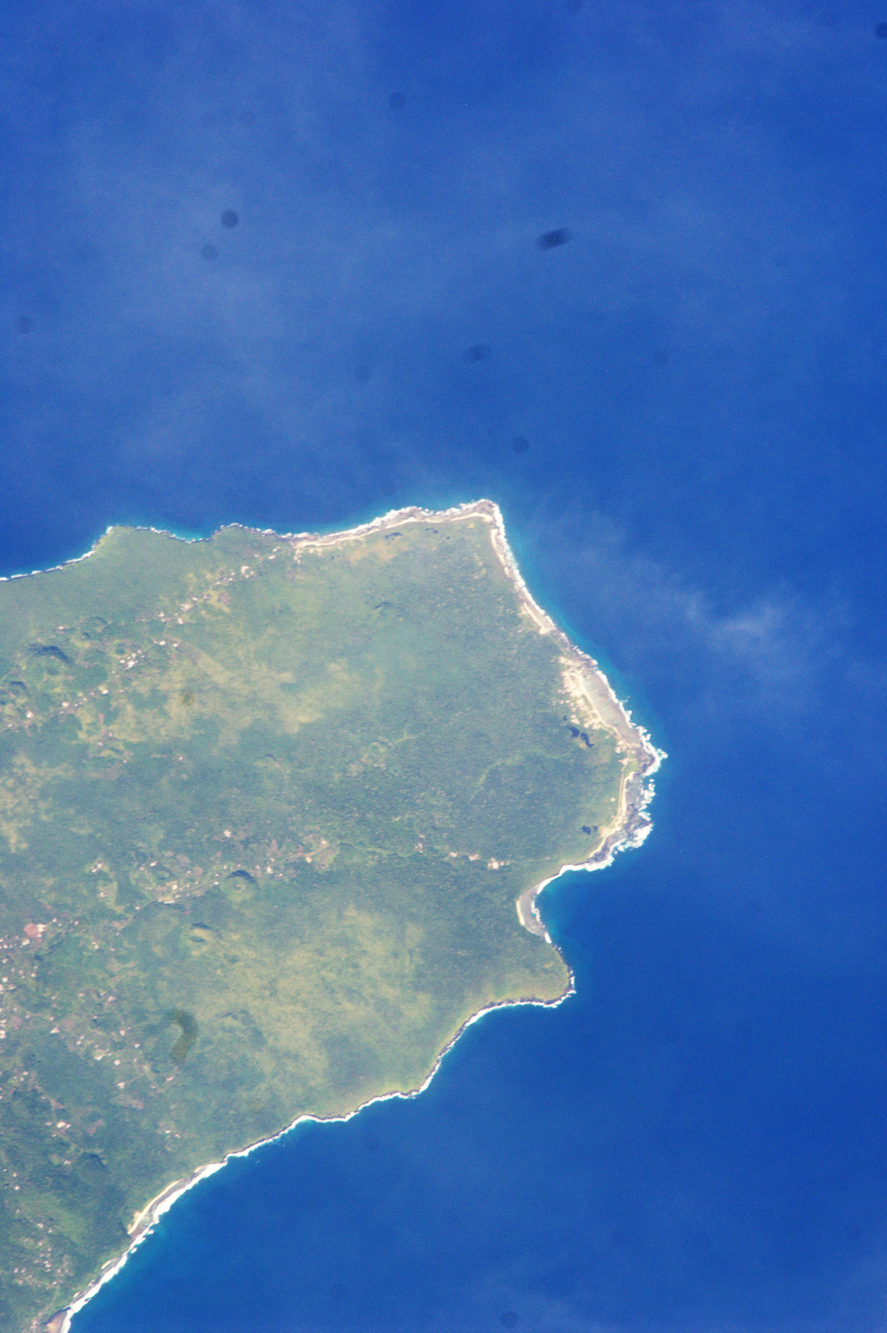 West end of Savai'i showing Falealupo and coastline.